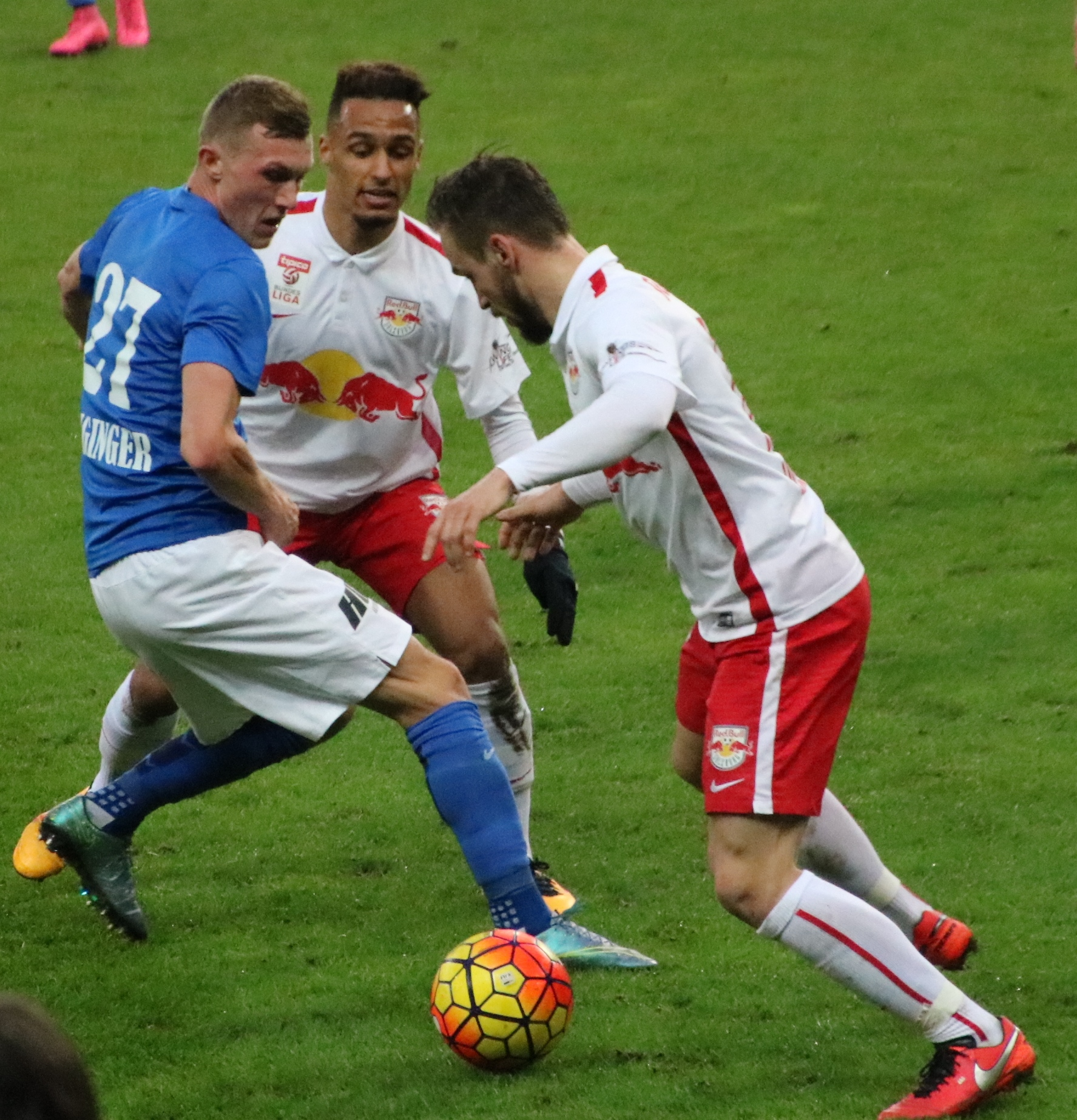 League match Austrian Bundesliga 26th round 2015/16